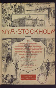 "Nya Stockholm", book by Claës Lundin